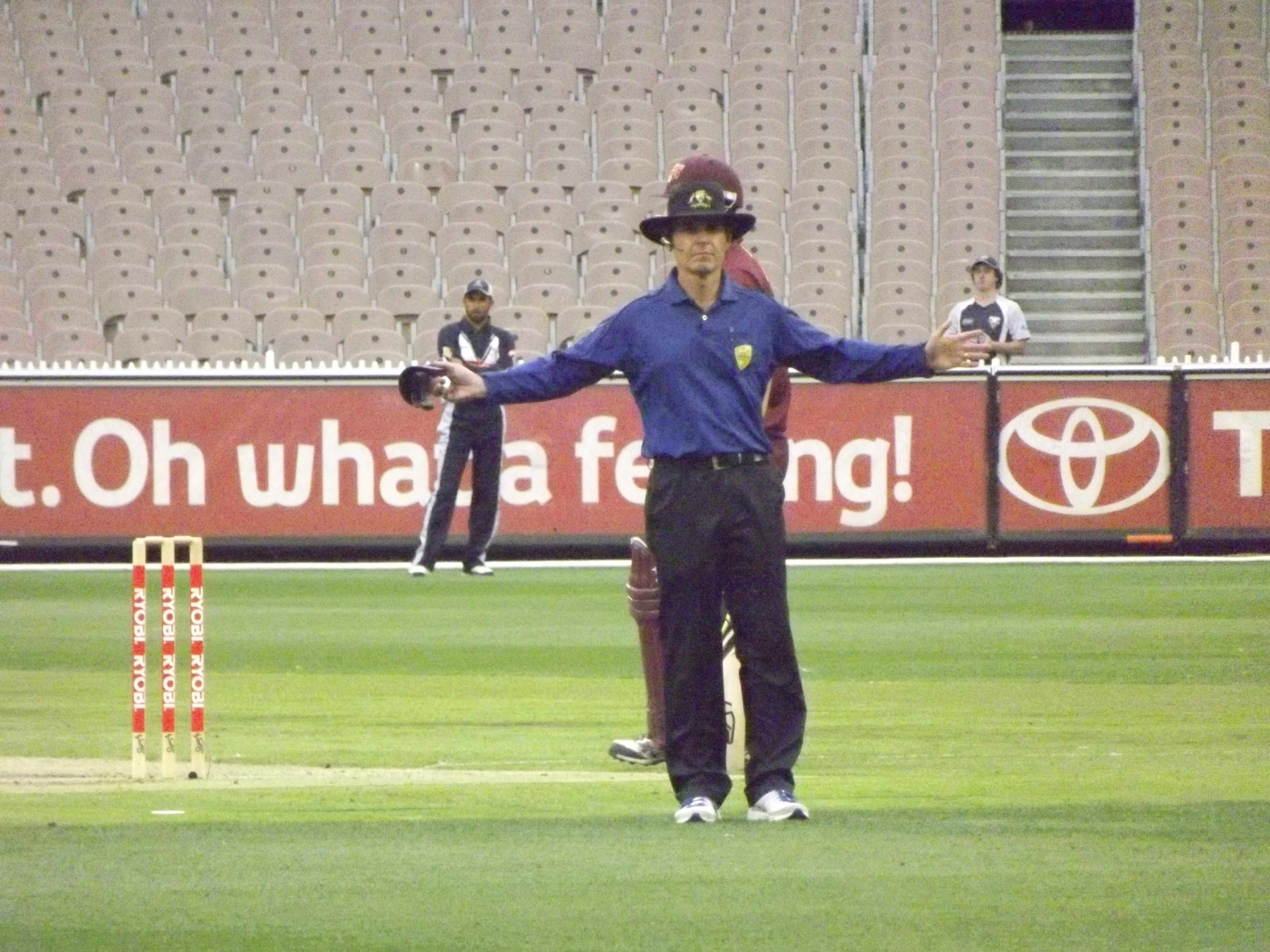 Umpire Simon Fry signals a wide during the 2012/13 Ryobi One Day Cup final at the MCG